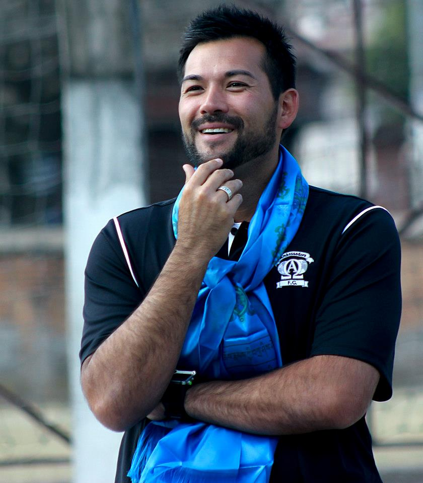 Aaron Tredway on tour with Ambassadors FC in Nepal December 2012